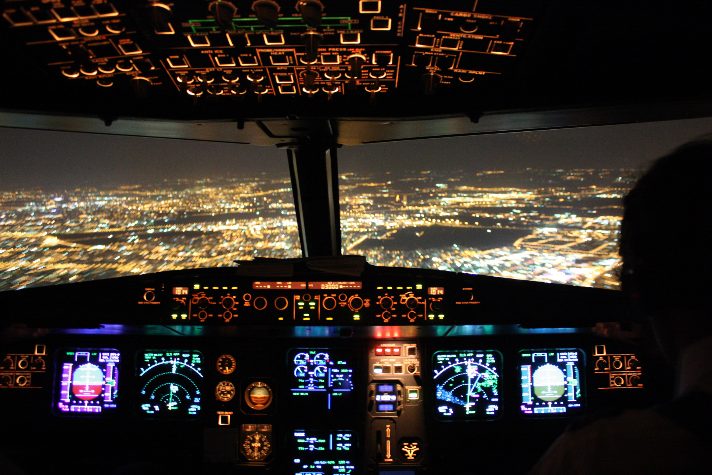 Few minutes before landing with Air France flight from Paris CDG to Tel Aviv.